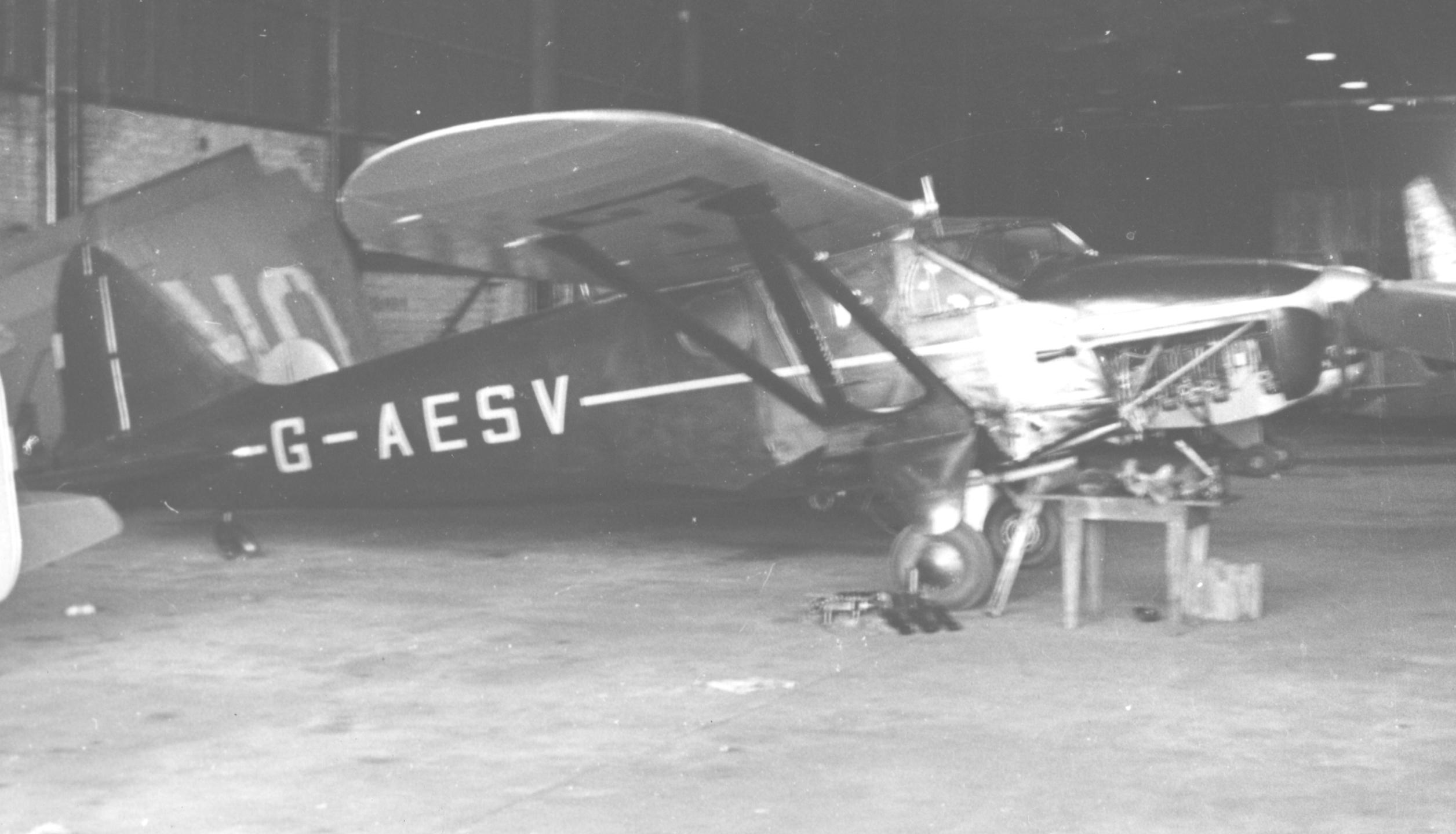 Heston Type 1 Phoenix II G-AESV at Elstree aerodrome